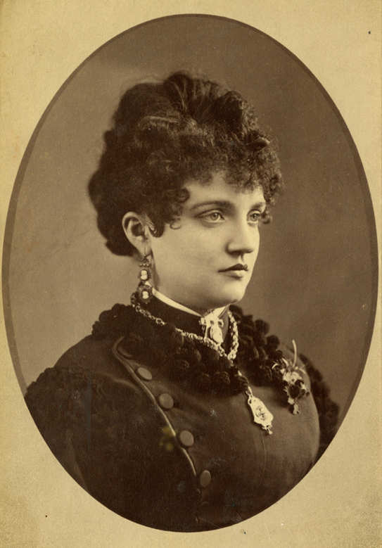 Baby Doe Tabor. Photograph taken in Oshkosh, Wisconsin, circa 1883